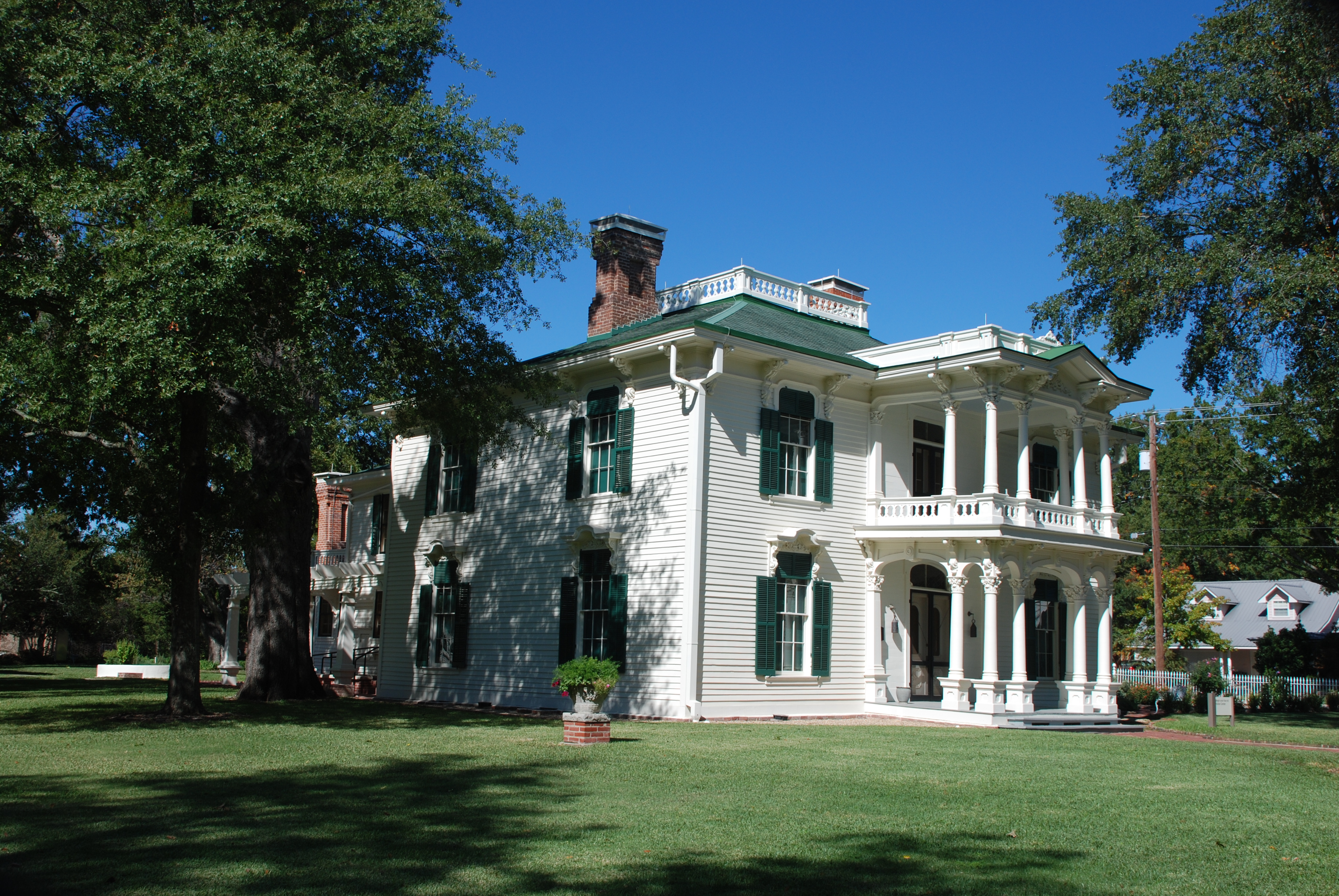 Sam Bell Maxey House (Paris, Texas, USA)